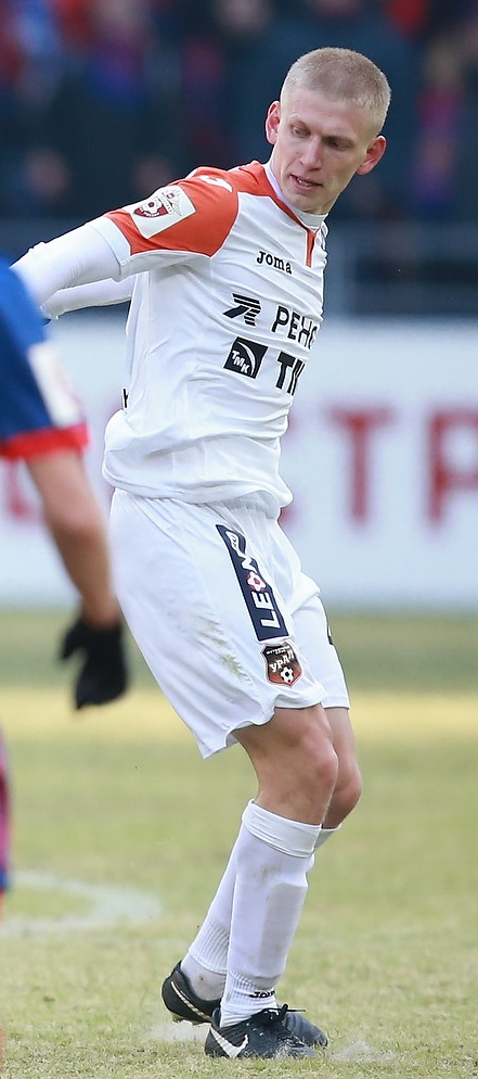 Andrei Yegorychev with FC Ural Yekaterinburg in a game against PFC CSKA Moscow.